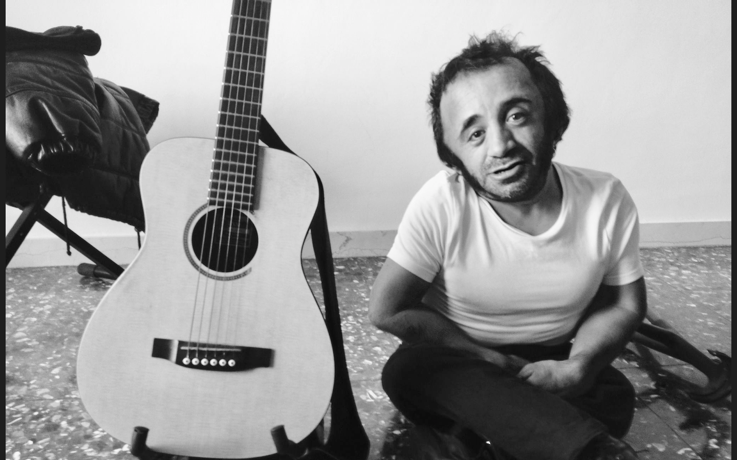 picture of fabiano lioi